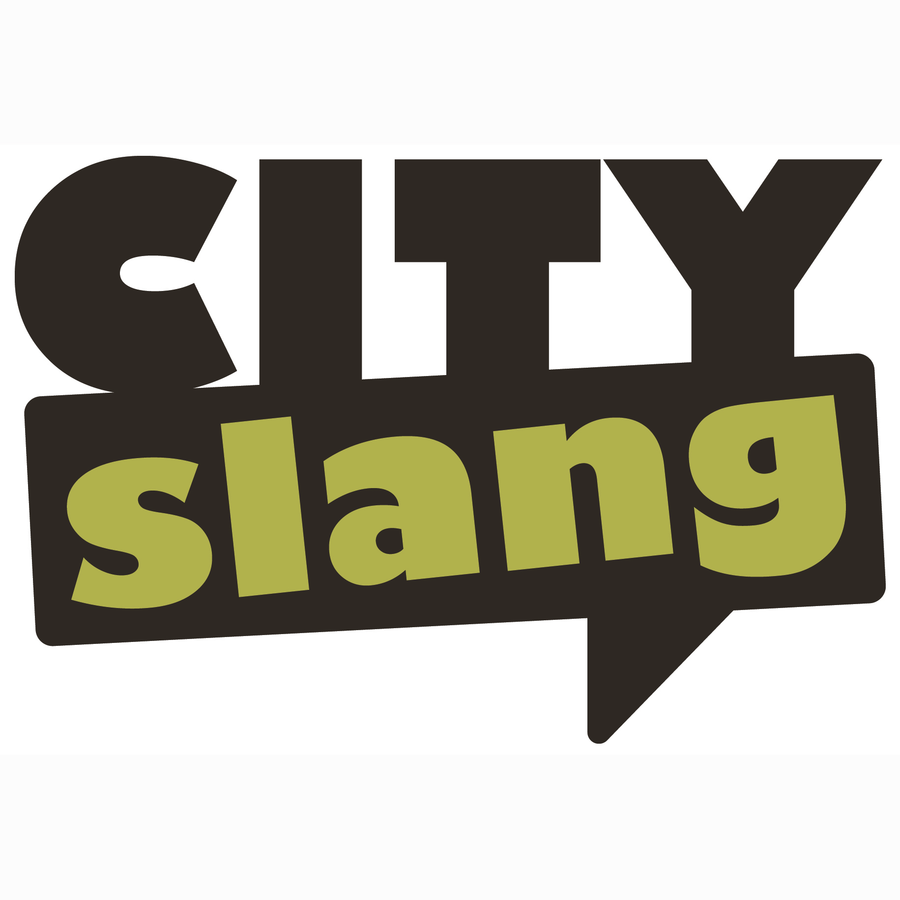 This is the logo of the independent Musiclabel City Slang which is based in Berlin.